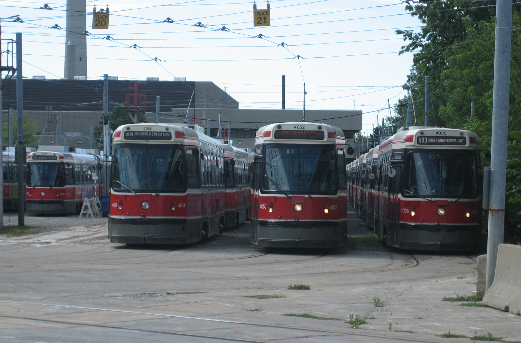 The Russell Yard, one of the TTC yards